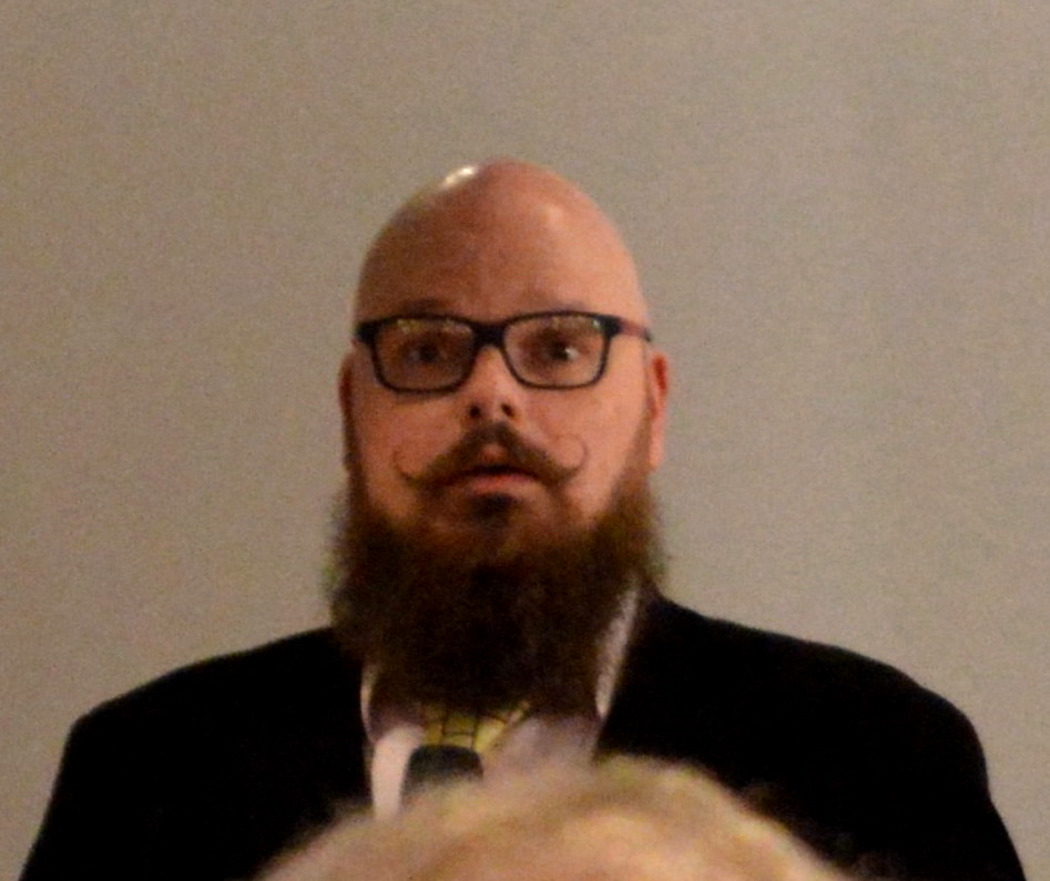 Dutch theologian Frank Bosman during a night in Amersfoort organized by the political party Christian Union to evaluate the Dutch general election held on 15 March 2017